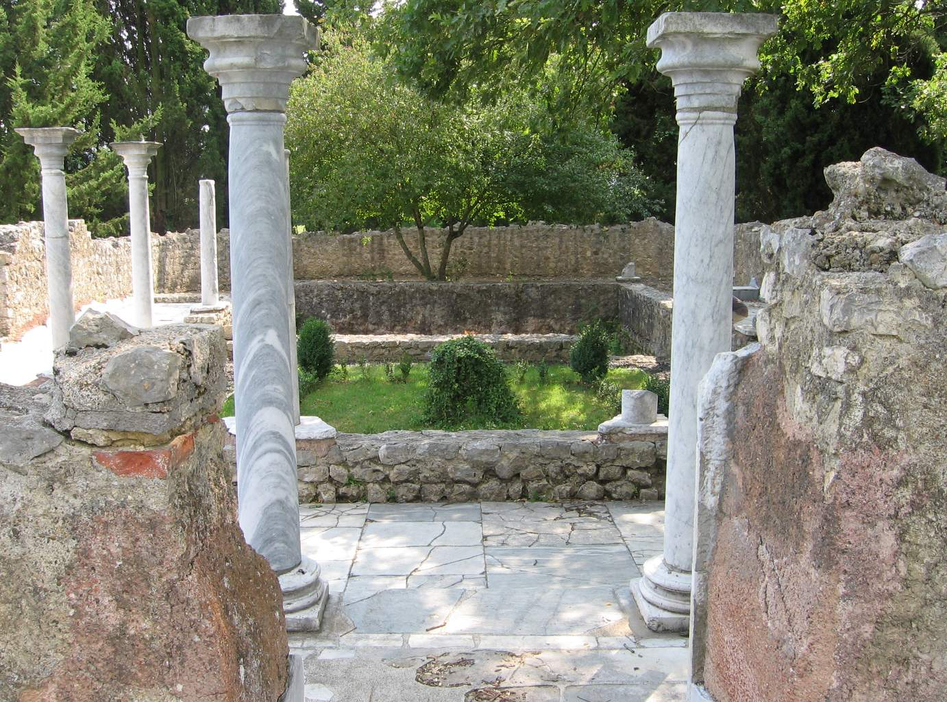 Roman villa in Montmaurin, France. Outdoor swiming pool taken from the rest room, in the bath area.